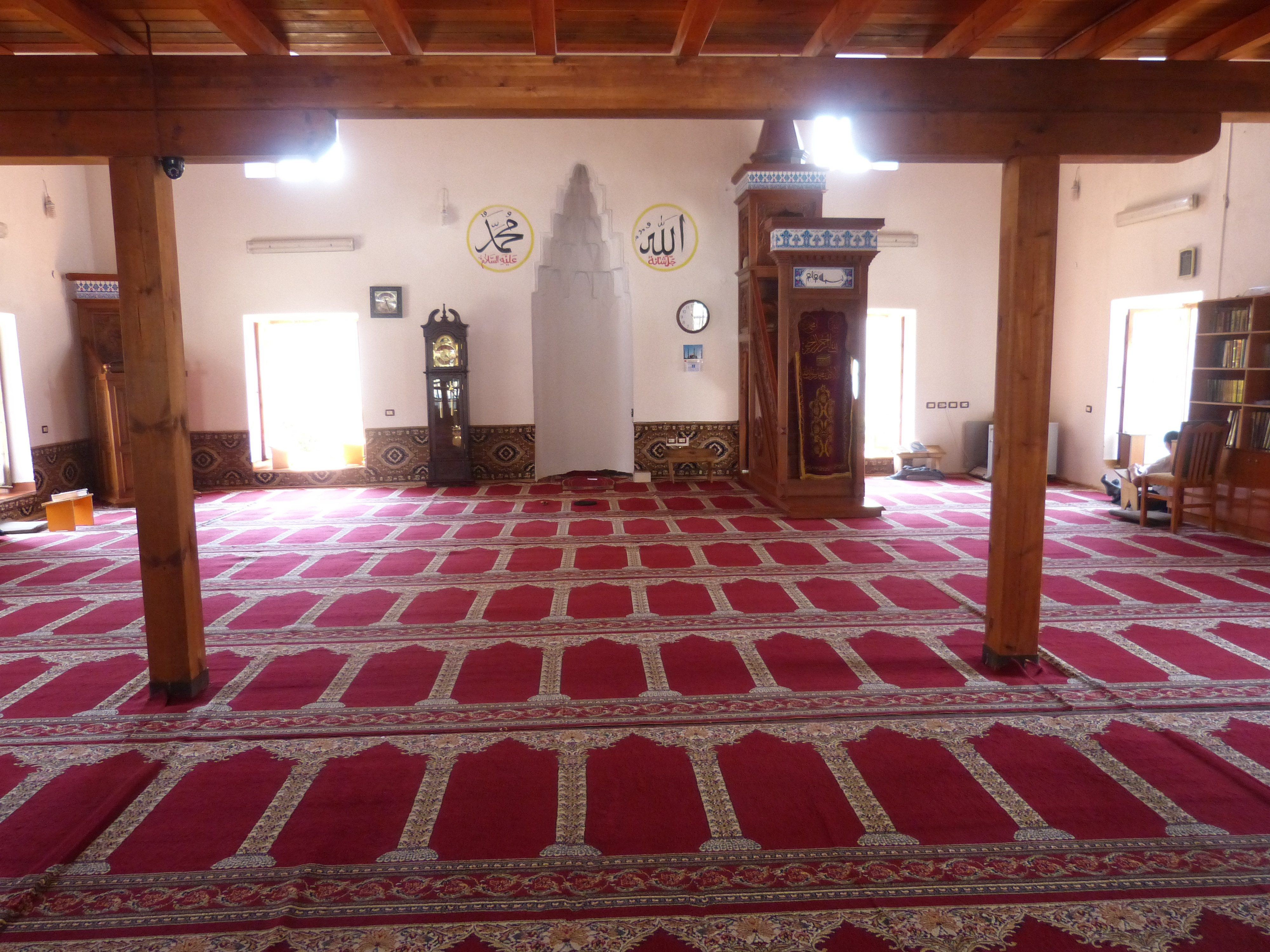 Elbasan ( Albania ). Mbret-Mosque ( 1492 ): Interior.